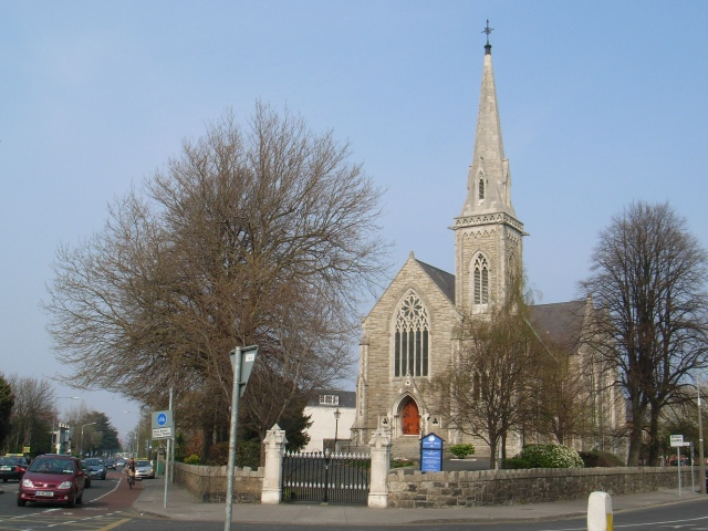 Christ Church, Rathgar A Presbyterian church at the junction between Rathgar and Highfield Roads. Constructed between 1860 and 1862 and enlarged in 1899.